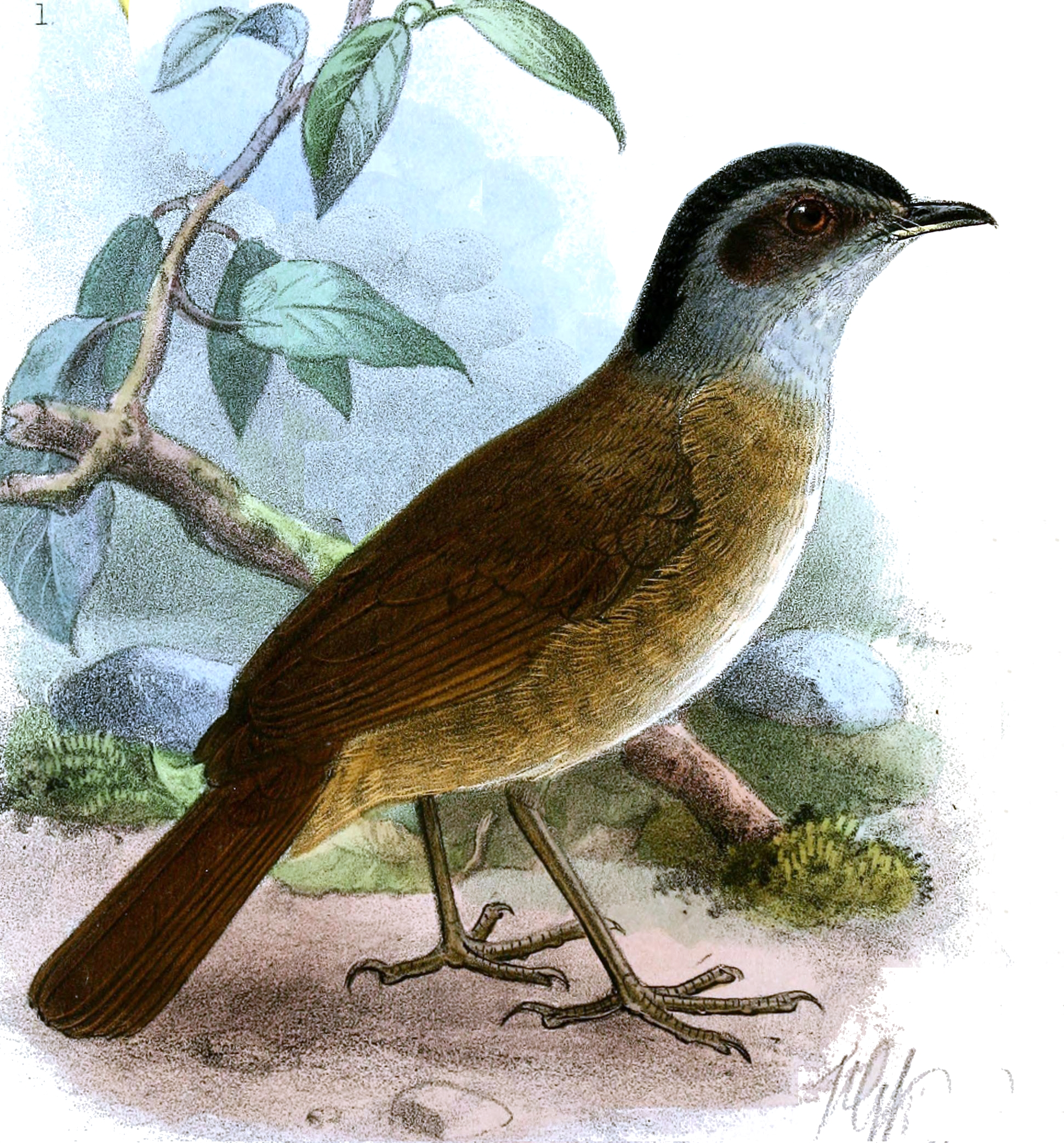 Turdinus batesi (Blackcap Illadopsis now Illadopsis cleaveri)